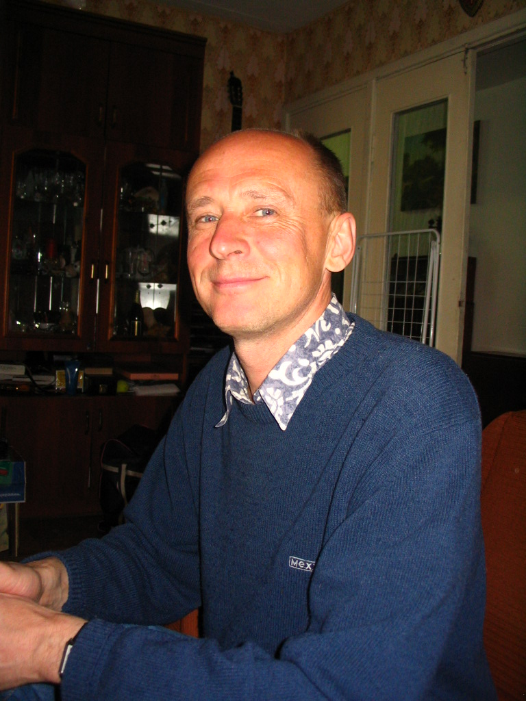 Andrei Tarsalainen